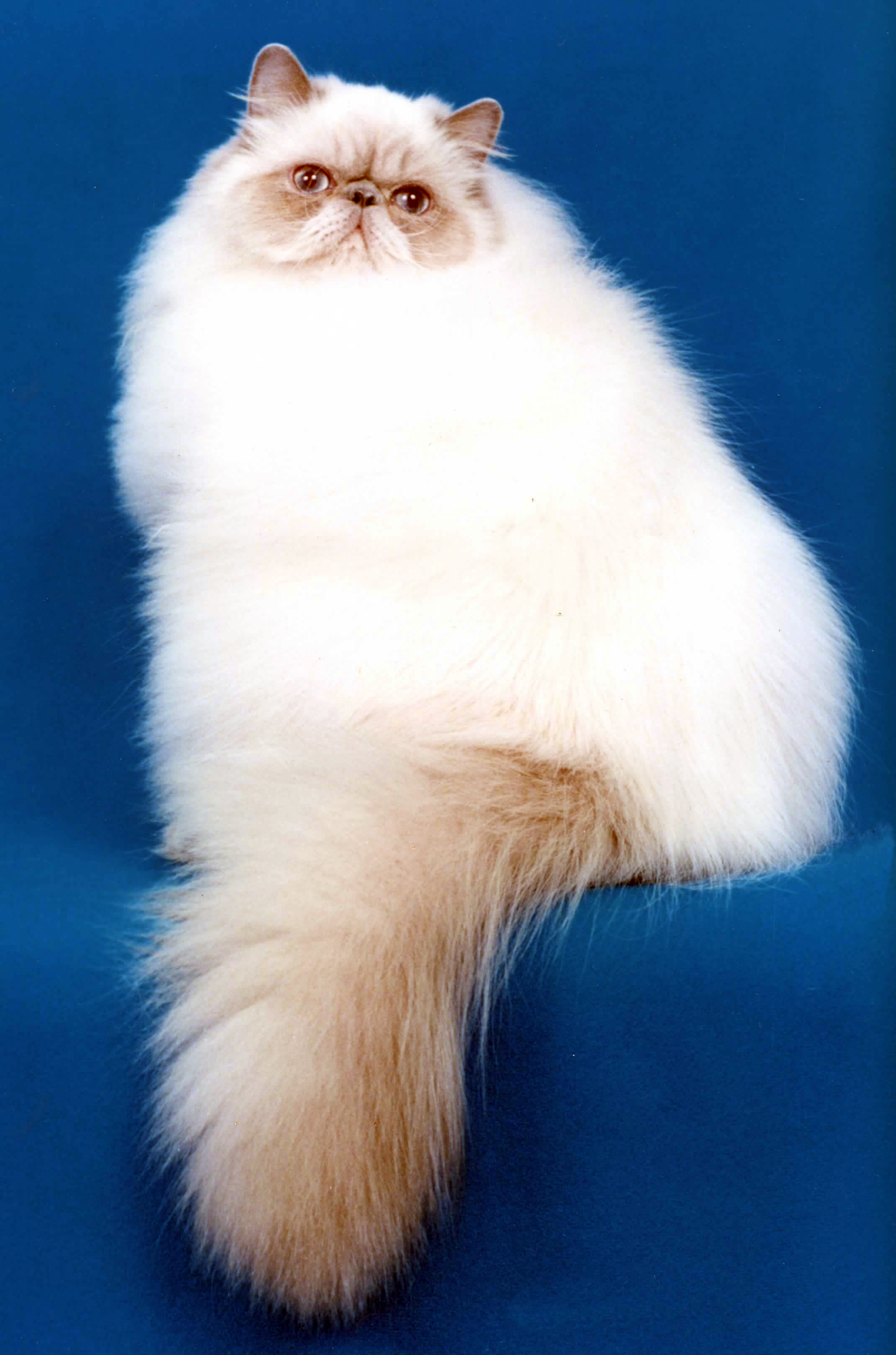 Grand Champion Lilac Himalayan/Colorpoint Persian